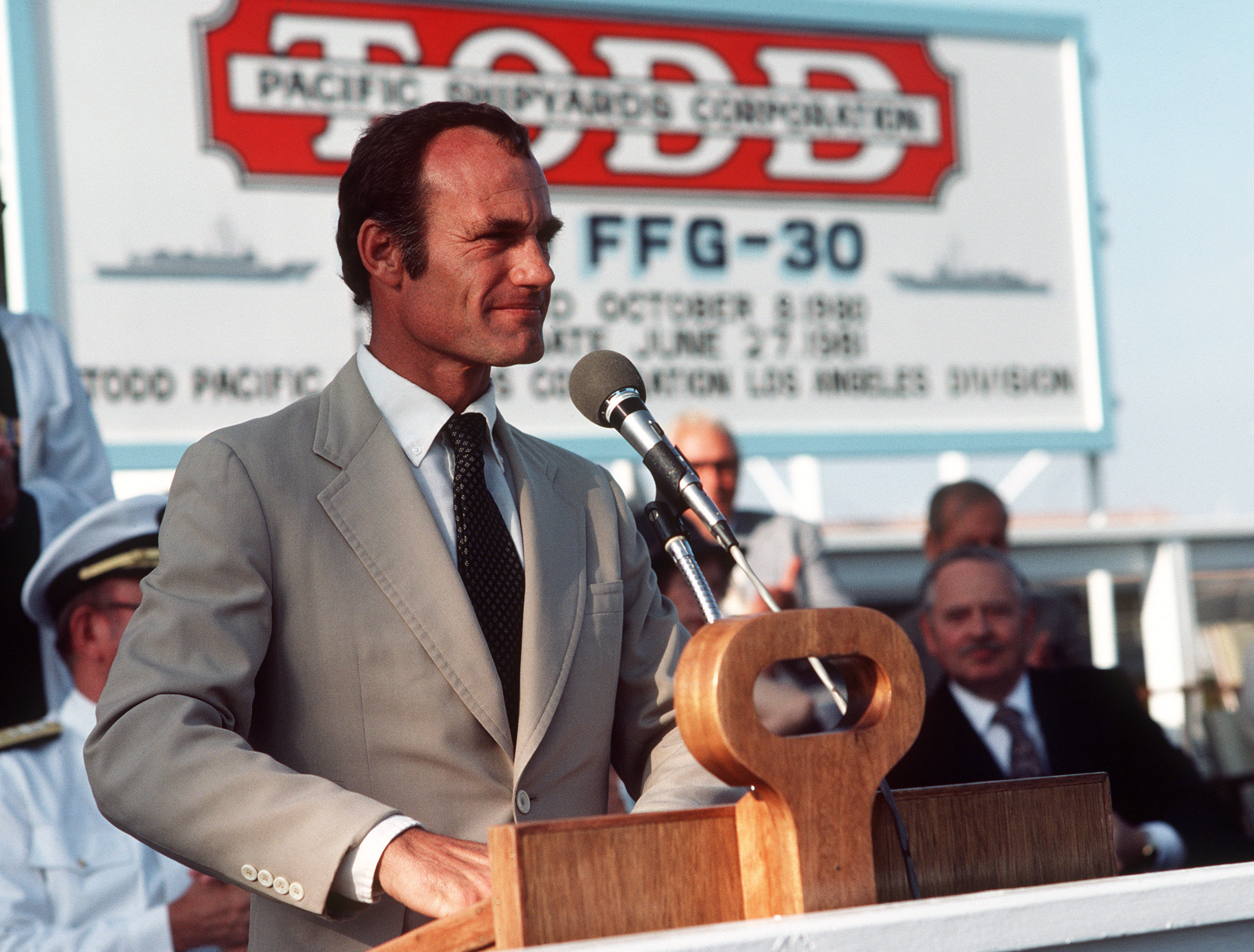 Rep. Barry M. Goldwater Jr., R-Arizona, speaks during christening and launching ceremonies for the guided missile frigate USS REID (FFG-30) at the Todd Pacific Shipyards Corp., Los Angeles Div, 6/27/1981